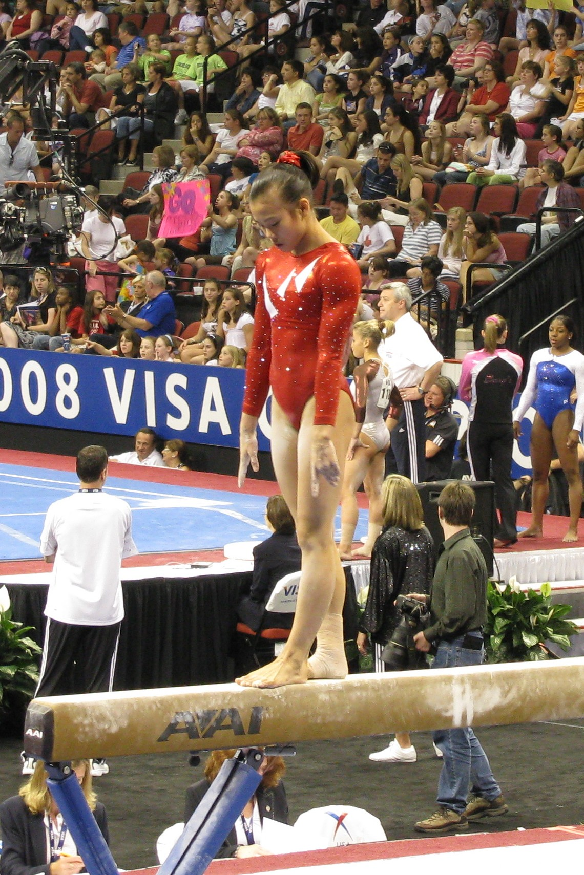 Ivana Hong on the balance beam at the 2008 U.S. Gymnastics Championships in Boston, MA